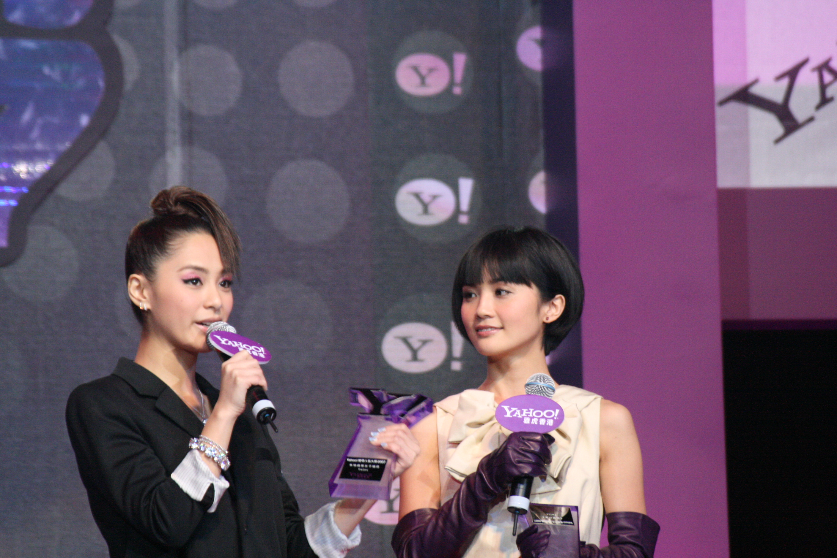 Twins 2007 Gillian Chung (蔡卓妍) Charlene Choi (鍾欣桐)